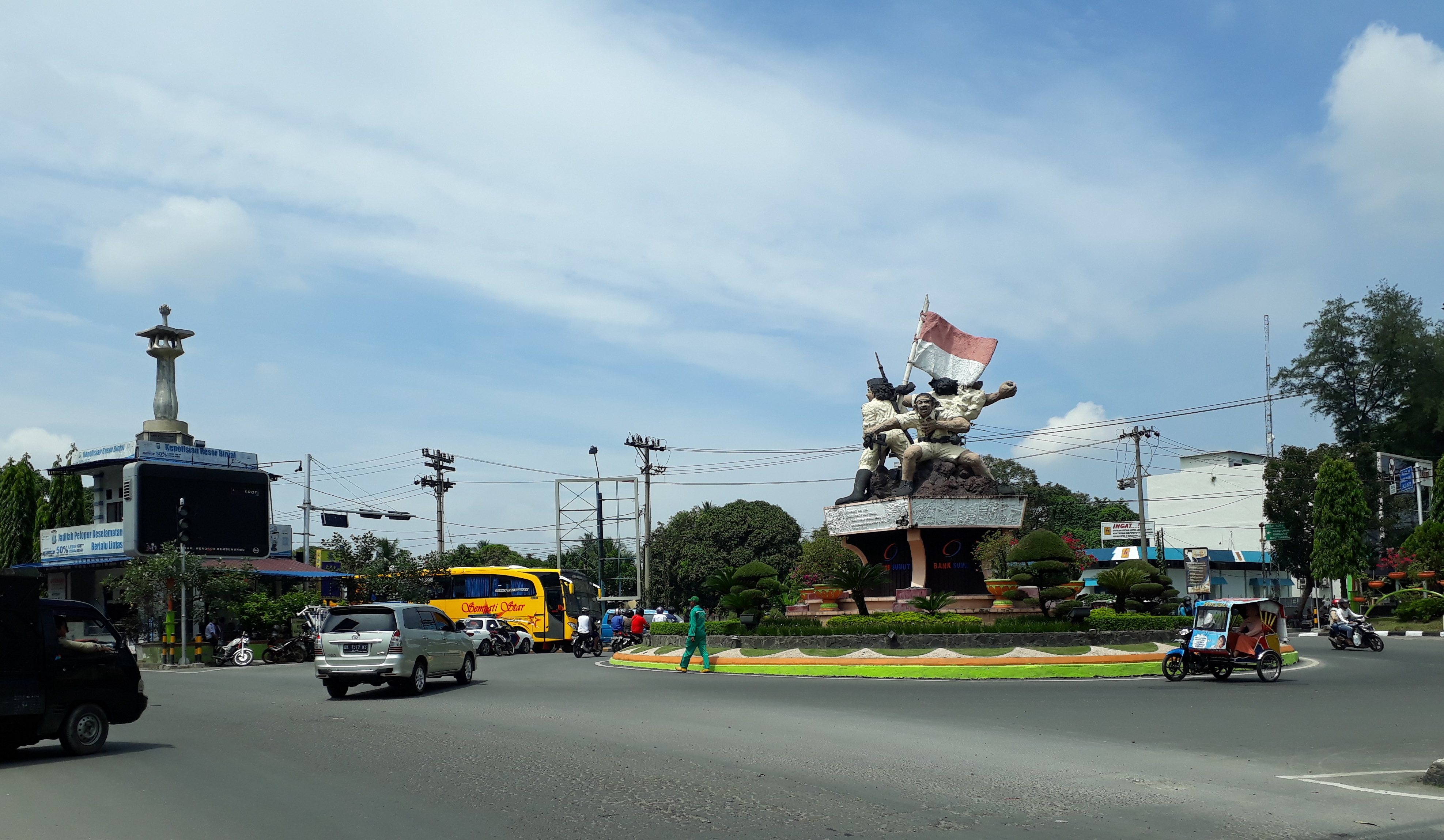 Binjai, North Sumatra, Indonesia